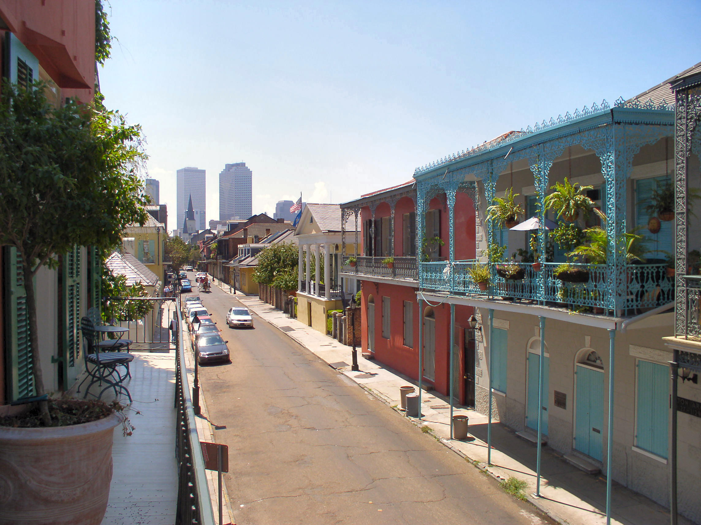 New Orleans, Chartres St - towards Canal Street, by Rafal Konieczny, 2004